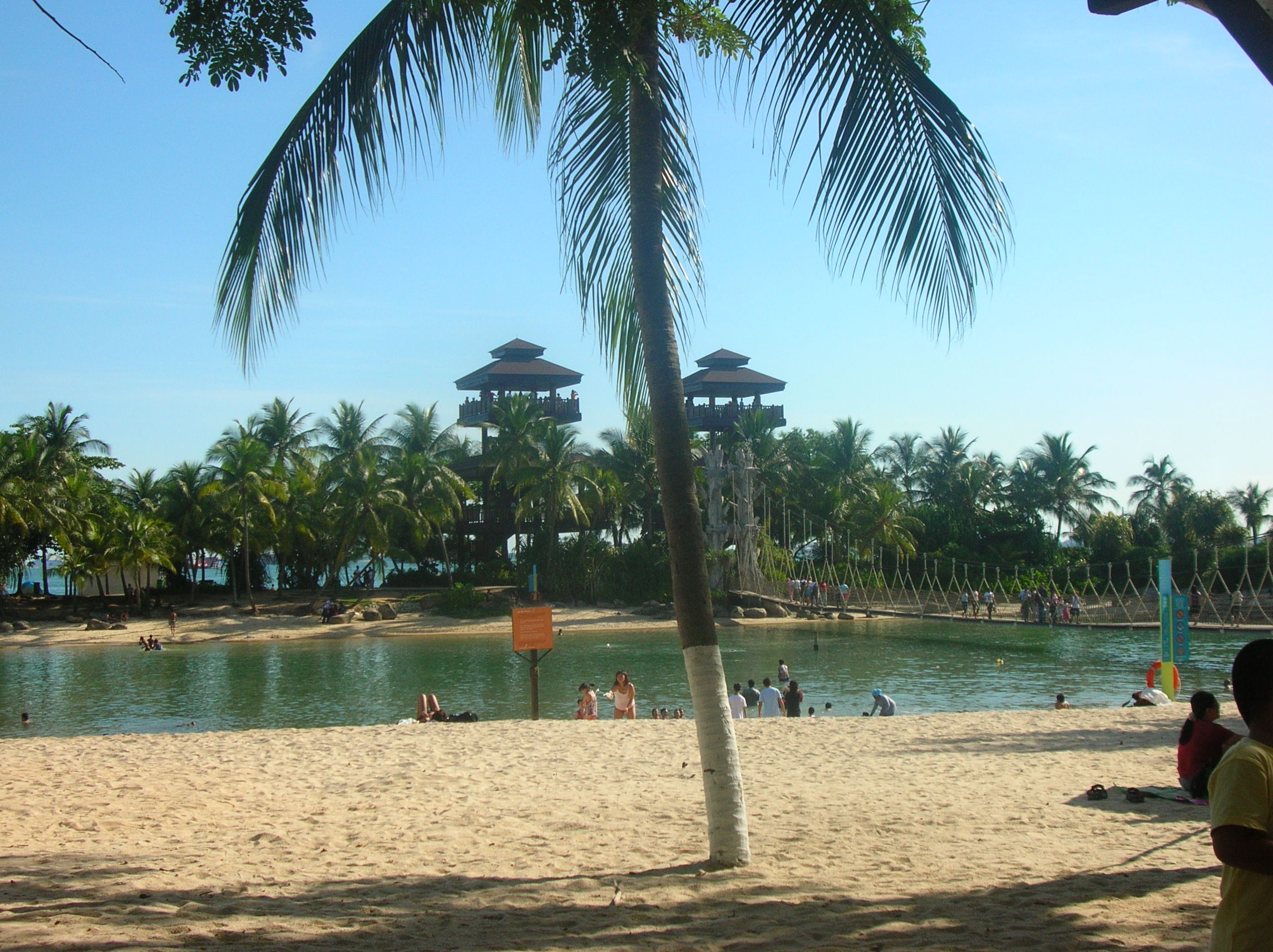 An unnamed island that is claimed to be the southernmost point of the continent of Asia that is linked to Palawan Beach in Sentosa, Singapore, by a suspension bridge.